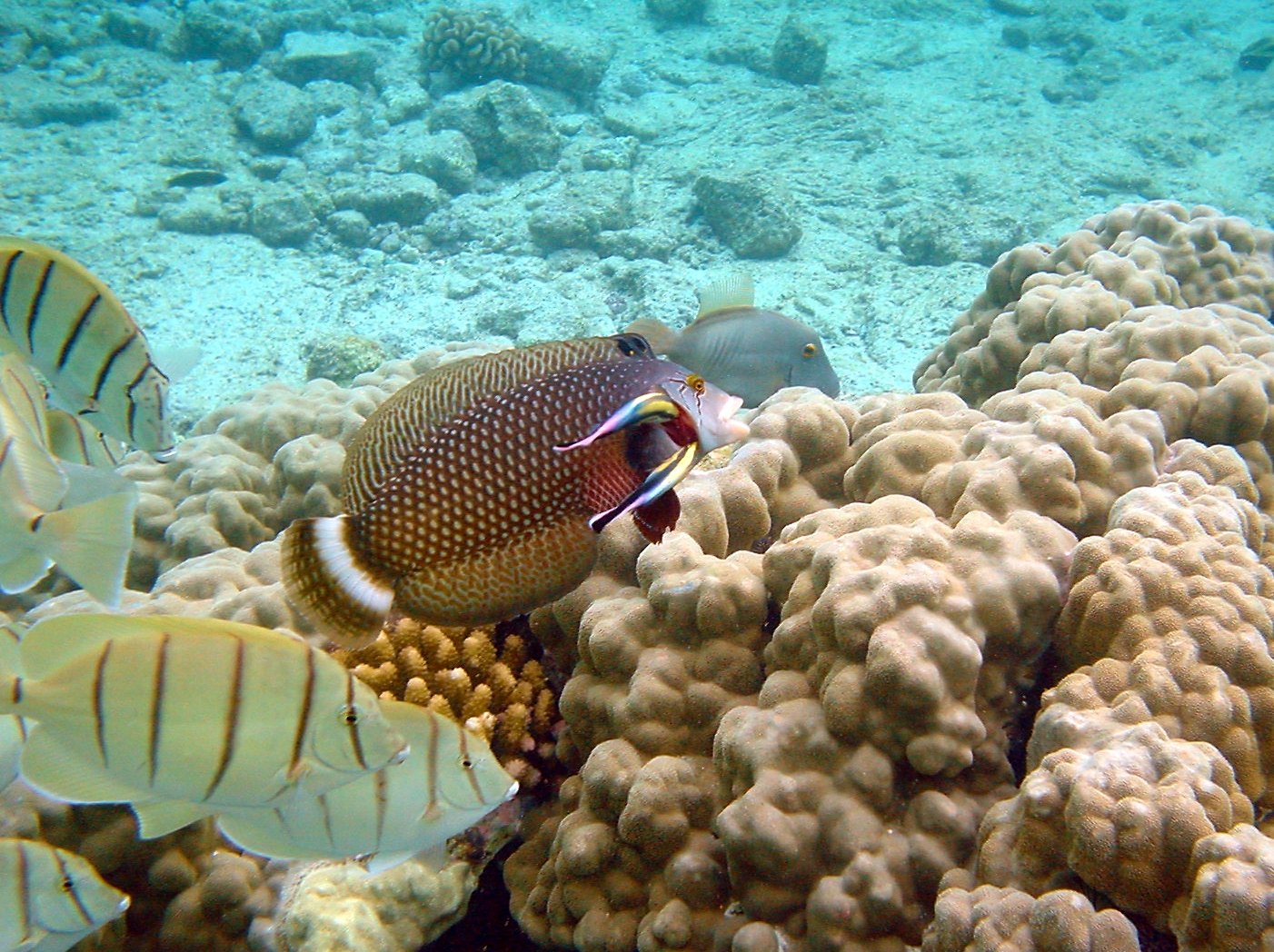 A dragon wrasse, Novaculichthys taeniourus is being cleaned by Rainbow cleaner wrasses, Labroides phthirophagus on a reef in Hawaii.